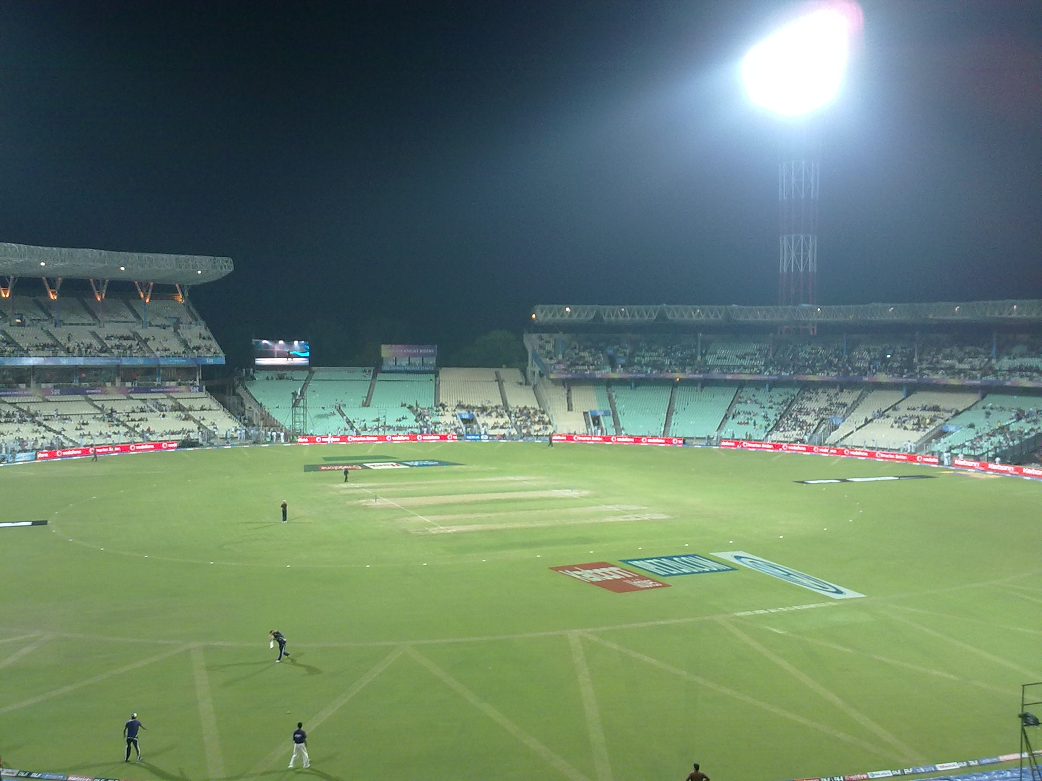 eden gardens before the start of kkr vs deccan match